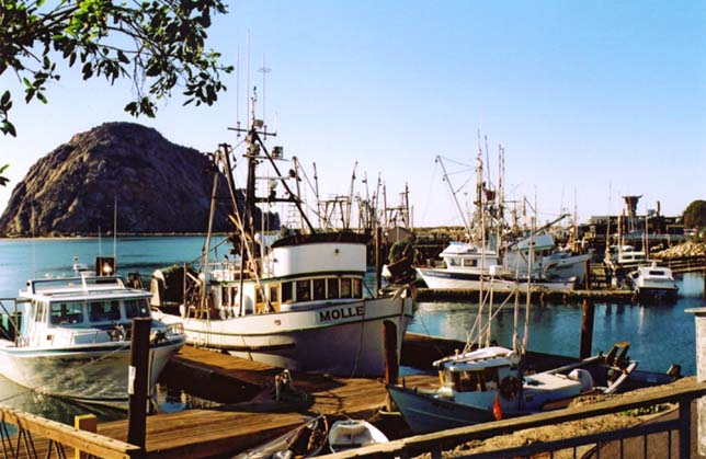 Morro Rock: Hey Paul